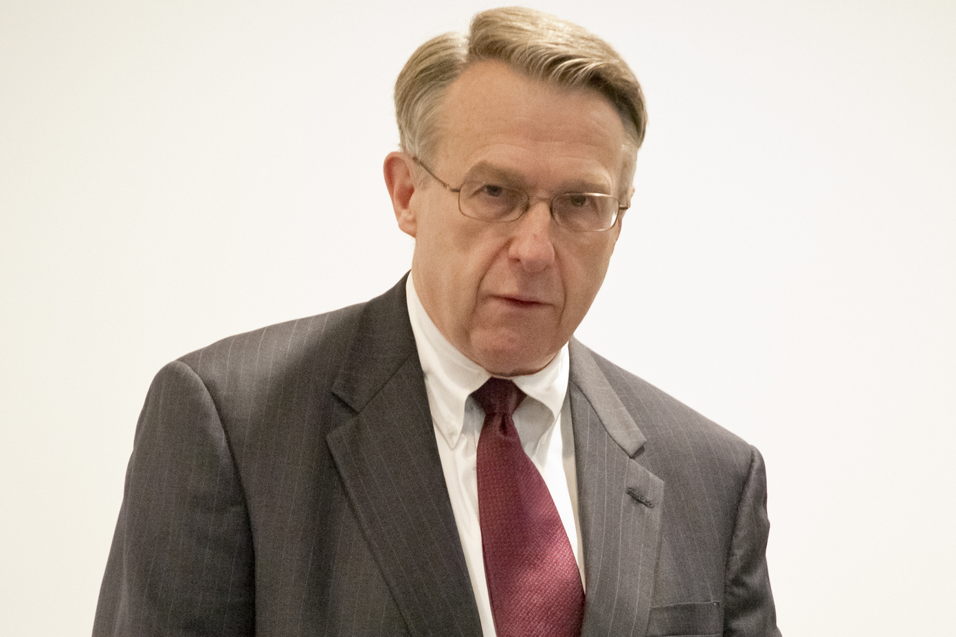 Sam Tyler, President of Boston Municipal Research Bureau, talks to Law and Public Policy course, November 17, 2011